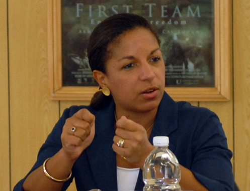 Flanked by Multi-National Division—Baghdad commander, Maj. Gen. Daniel Bolger (left) and the MND-B political advisor, Thomas Odom, U.S. Ambassador to the United Nations, Susan Rice speaks with MND-B Soldiers at the Pegasus dining facility on Camp Liberty, Oct. 24.